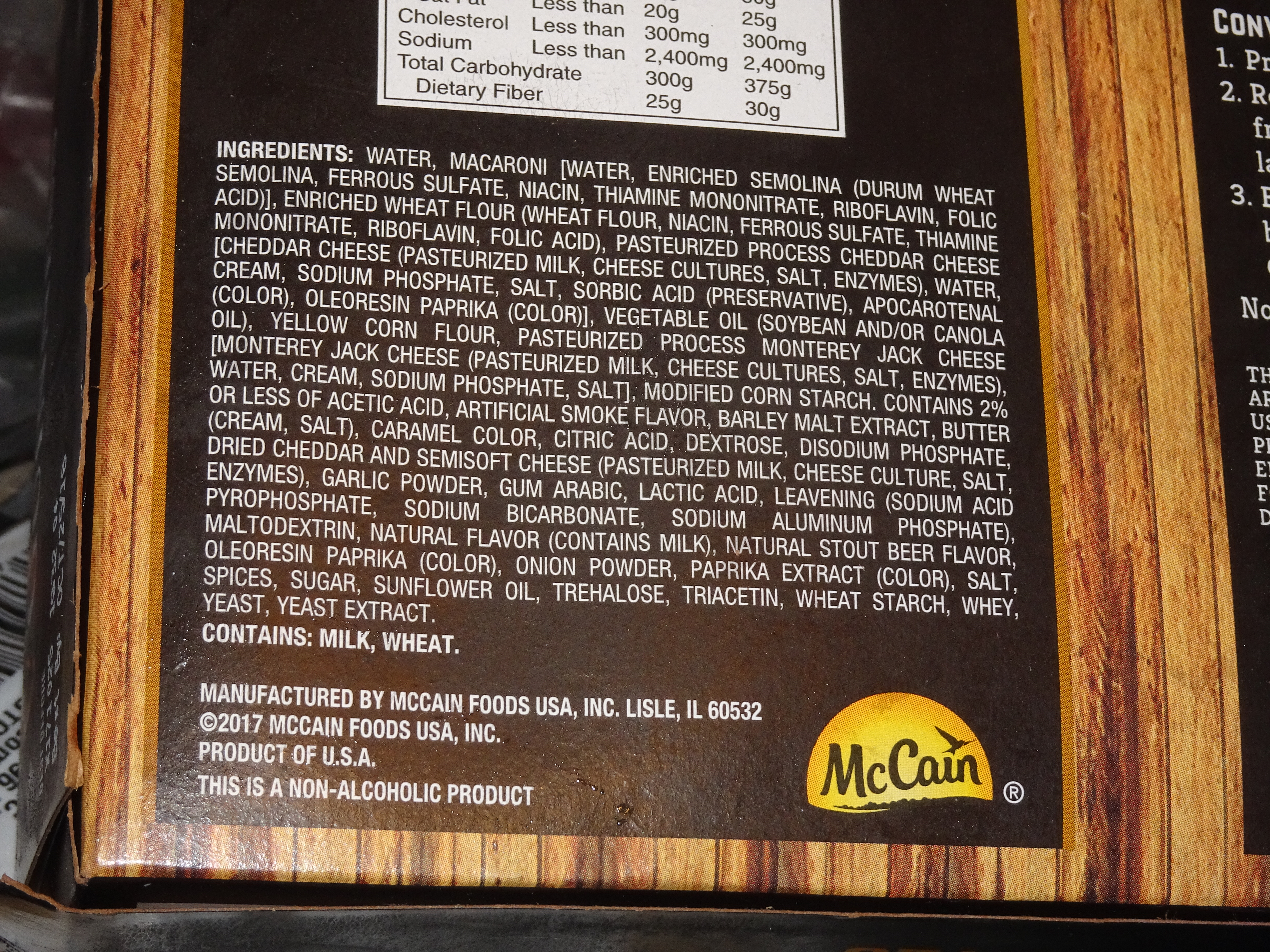 An exceptionally long ingredients list.